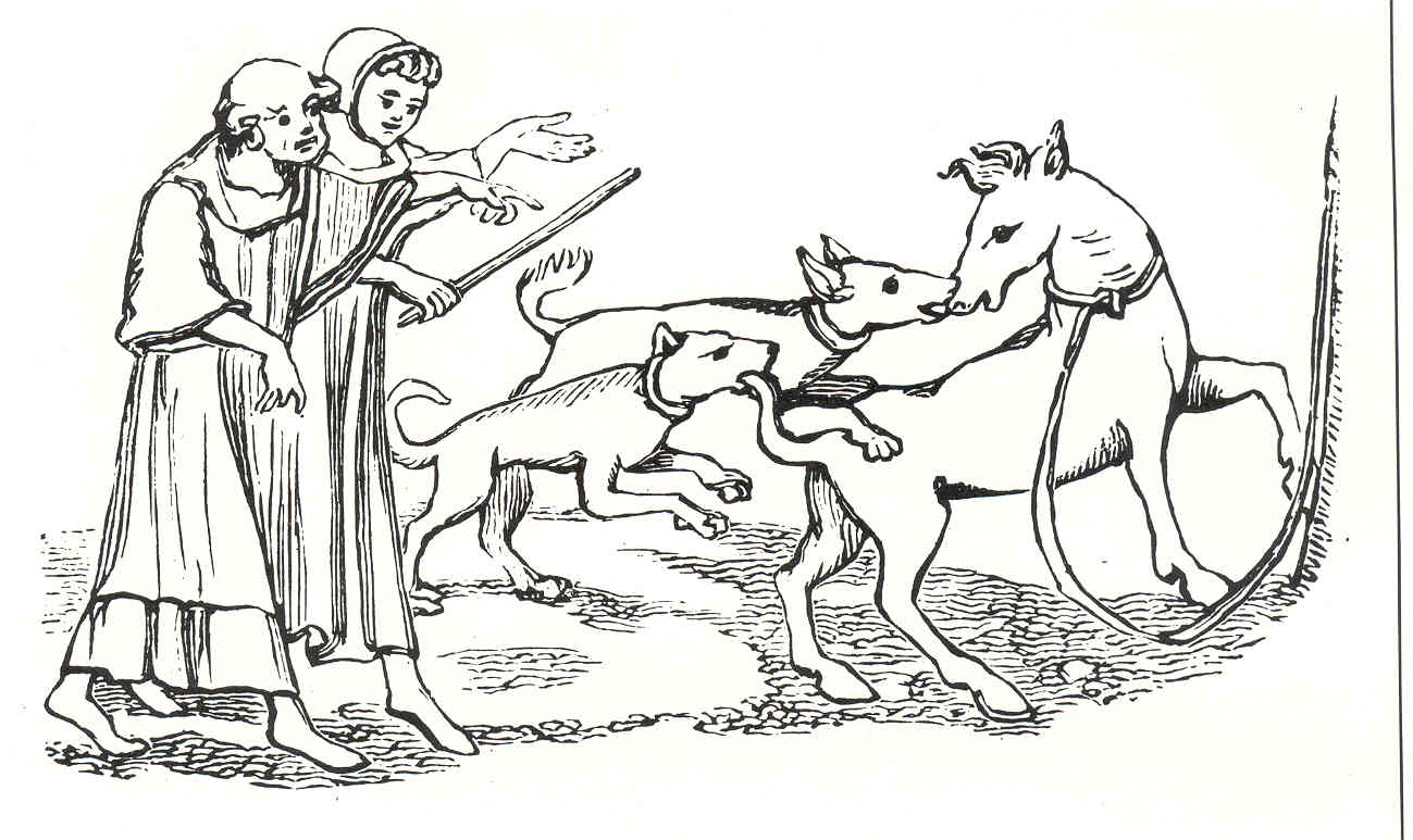 A Horse Baited with Dogs